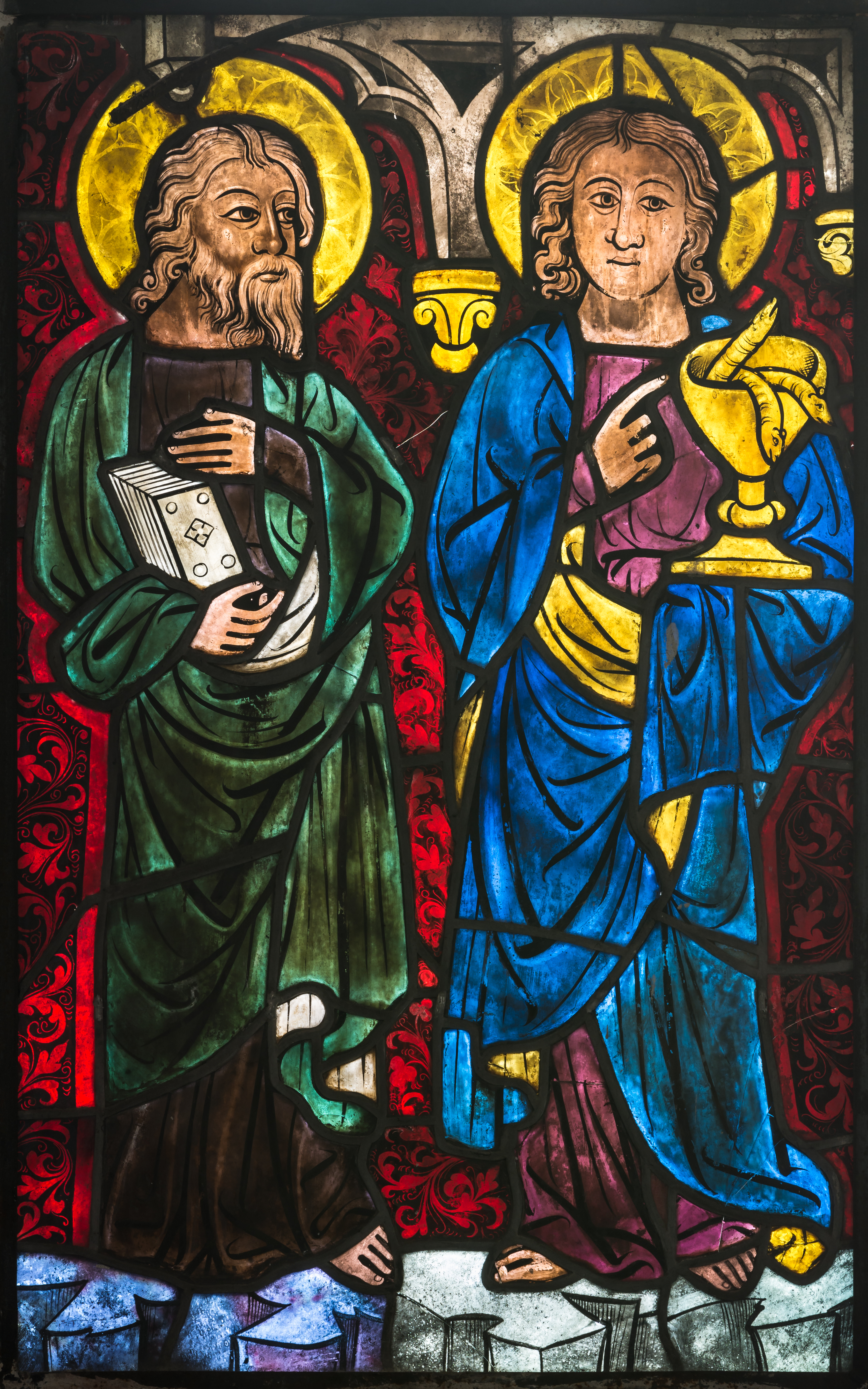 Gothic stained glass window (1415) in St. Anna parish church Pöggstall, Lower Austria: An apostle (St. Andrew?) and the apostle St. John, possibly with seven loaves and some fish (Feeding of the four thousand, Mark 8:1-10)